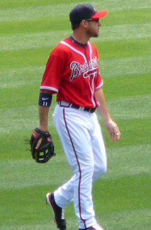 User:Chrisjnelson agreed to license this image of Mark_Kotsay.jpg under a free attribution license. Any use of this image must be attributed; this means that Photo by :en:User:Chrisjnelson|Chris Nelson should be in the picture caption. 23:42, 20 April 2008 . . Chrisjnelson . . 213×324 (100 KB)